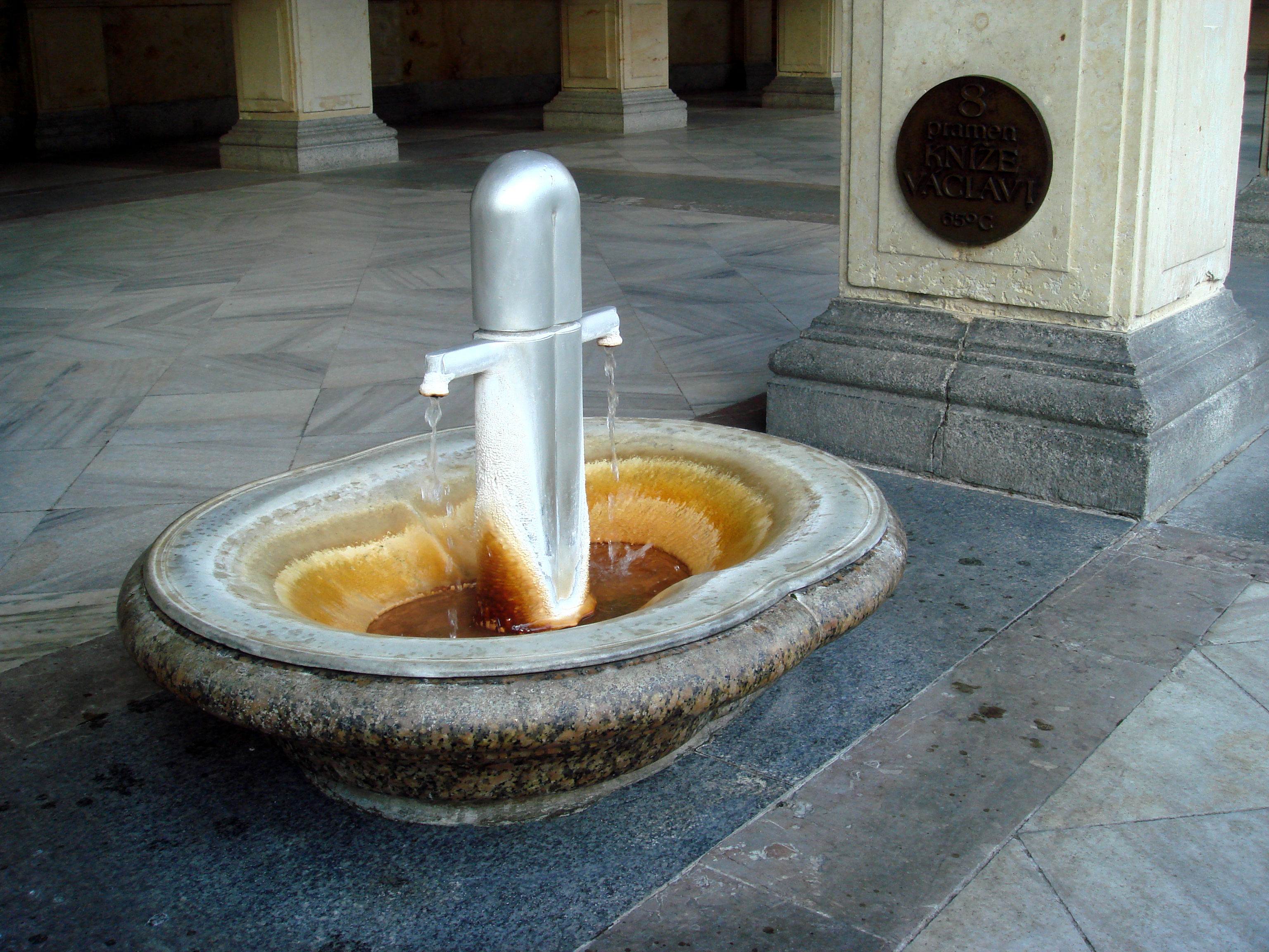 Prince Václav I Spring, Mill Colonnade, Karlovy Vary, Czech Republic.